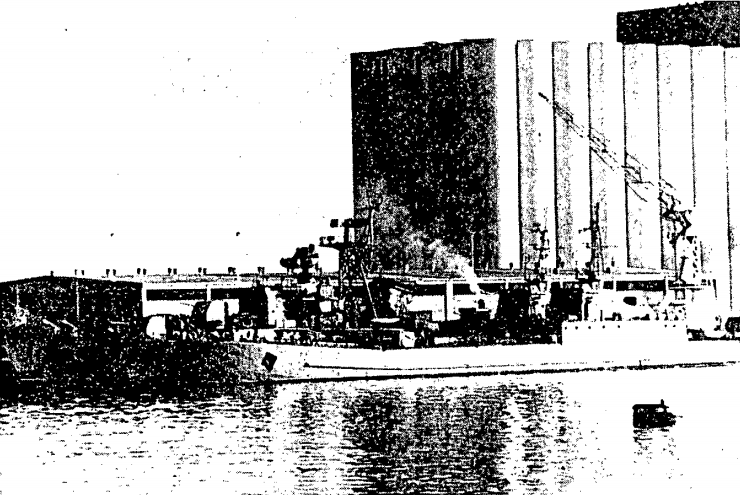 Soviet ship unloading military supplies in Latakia.